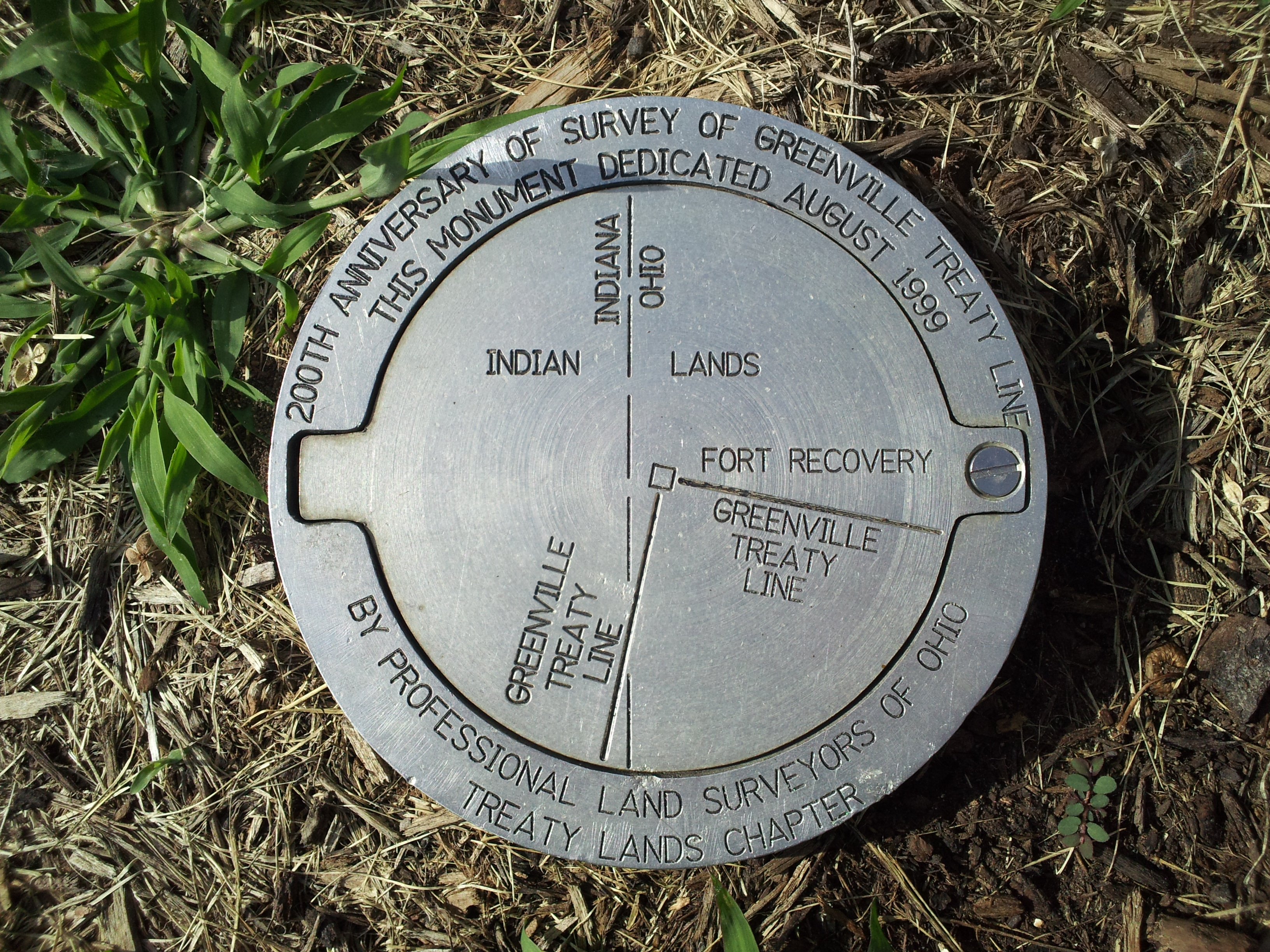 Greenville Treaty Line stake location in Fort Recovery.